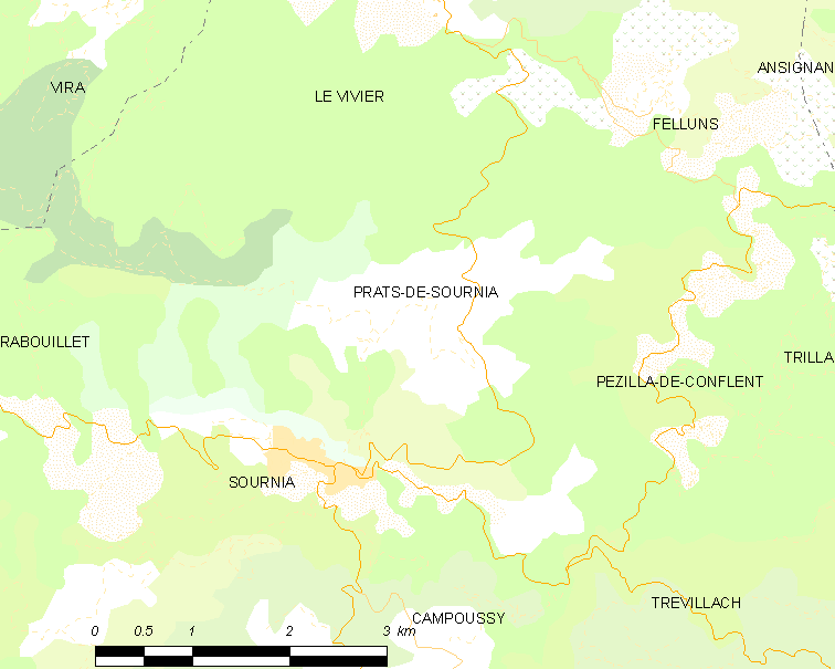 Map of French municipality